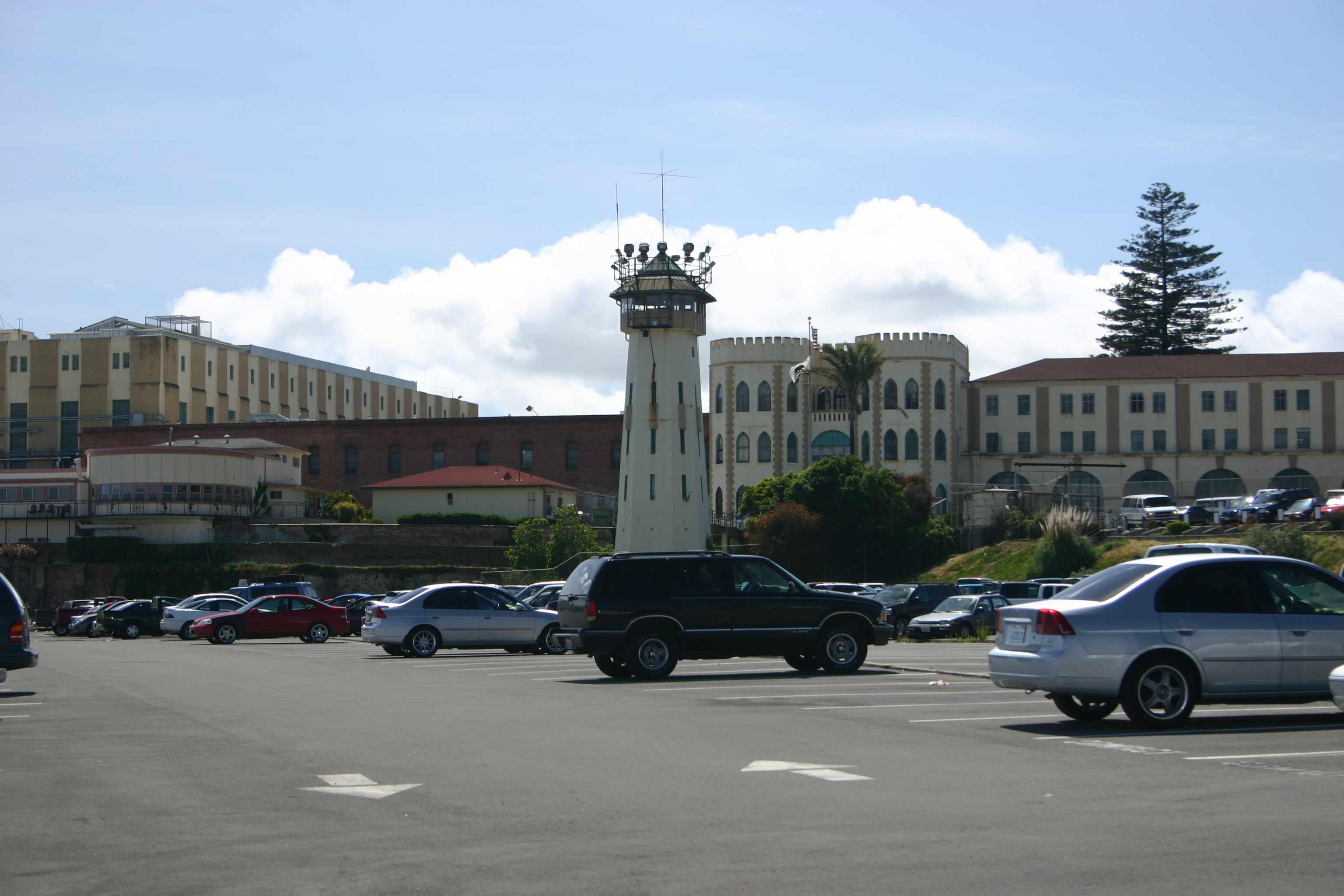 I took this photograph from the San Quentin parking lot